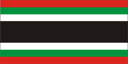 Flag of Anya-Anya